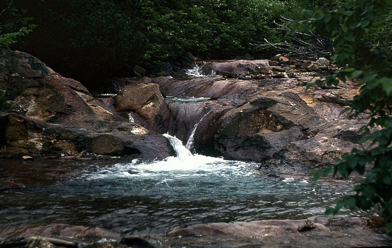 Sulfuric River, Kunasir Island